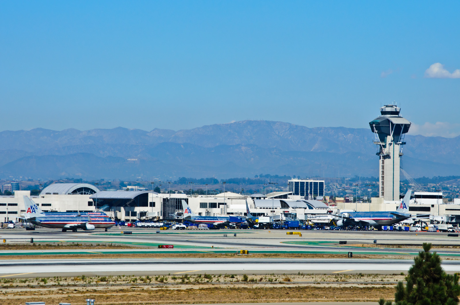 An overview of American Airlines' West Coast hub at Terminal 4, Los Angeles International Airport. Imperial Hill to the south of the airport, the infamous planespotting area, offers excellent overview of the whole hub and most of the rest of the airport. And on this particular day, the smog-free air affords views of even Hollywood and the faraway San Gabriel Mountains.